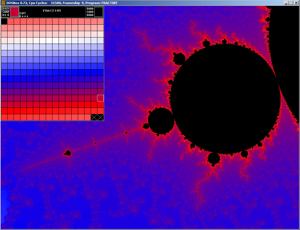 Mandelbrot fractal palette editing with Fractint. This image shows freeware DOS program Fractint version 20.0 running in 256 colour mode inside DOSBOX 0.72 on Windows Vista. Fractint's palette editor is shown in the top left corner. The small black cross-hairs in the top centre of the fractal have selected a single pixel, and the palette editor's top left box shows the RGB values and colour of that pixel (red). The position of that colour in the palette is shown by a white bordered box in the matrix below. This region of the Mandelbrot set is the same as File:Mandelbrot fractint red.png, but after its colour palette was changed.